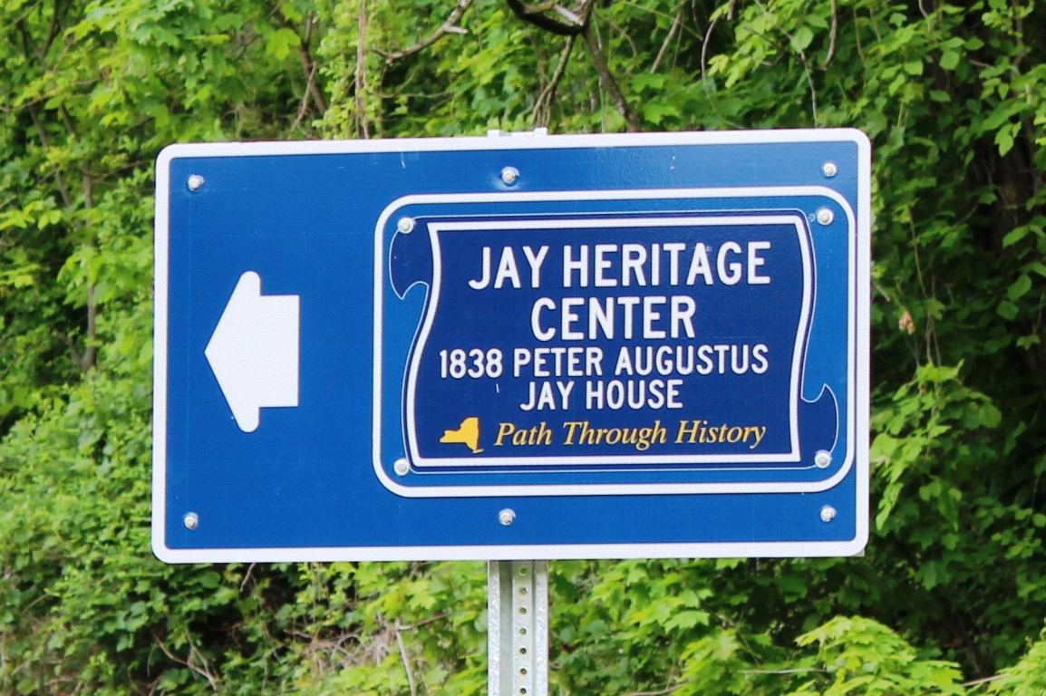 Sign installed by New York State in 2014 to recognize historical significance of Jay family home in Rye and denote as member site of Civil Rights itinerary. Located at the southbound off-ramp of Exit 25 on the Hutchinson River Parkway in Harrison, New York.